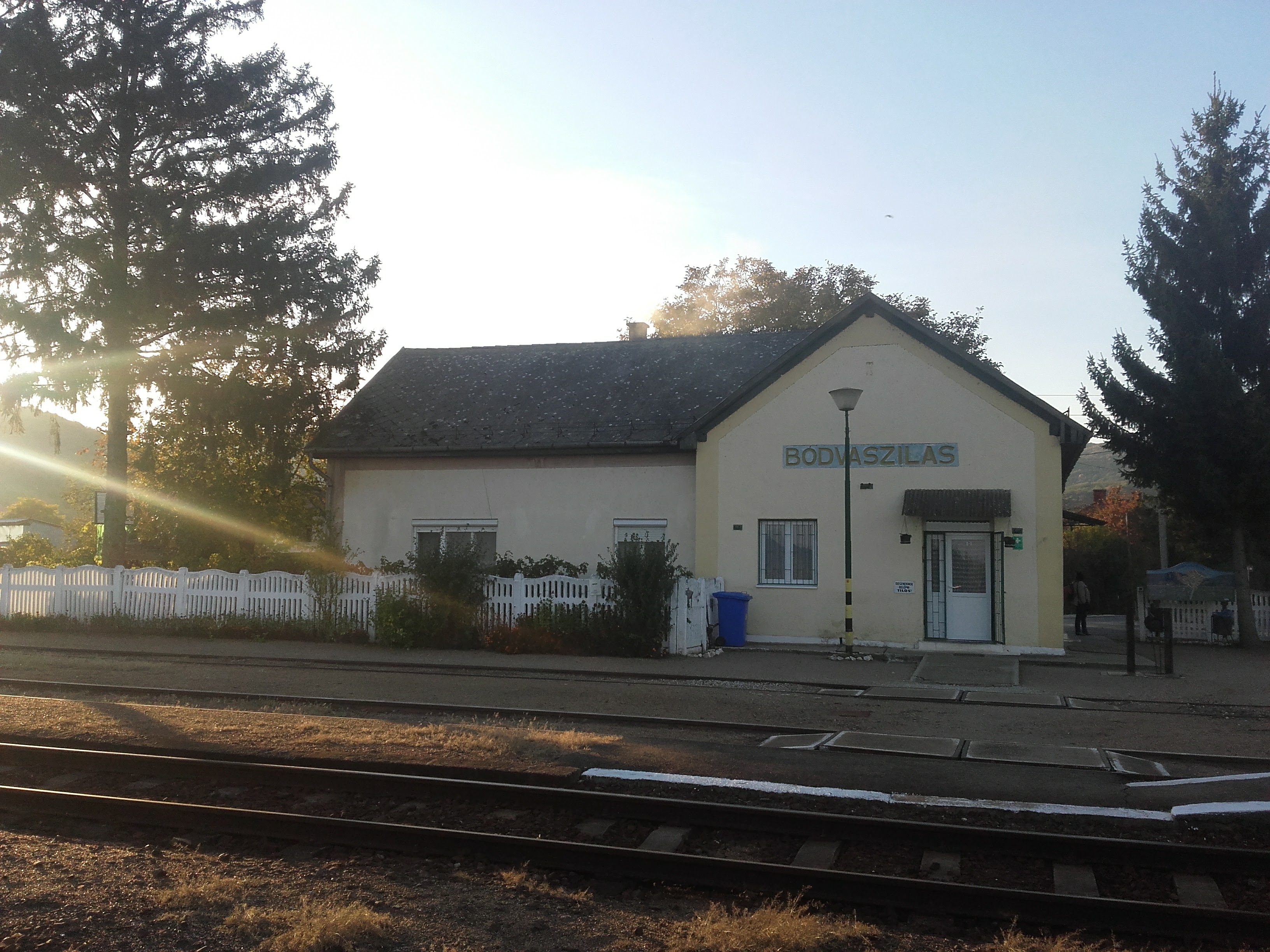 Train station in Bódvaszilas, Hungary, on a route from Miskolc.